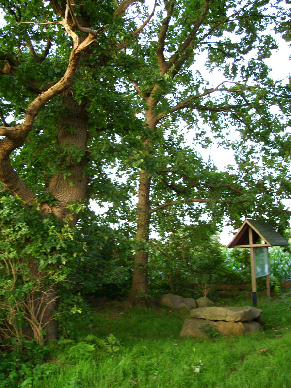 Steinkiste von Hagenah